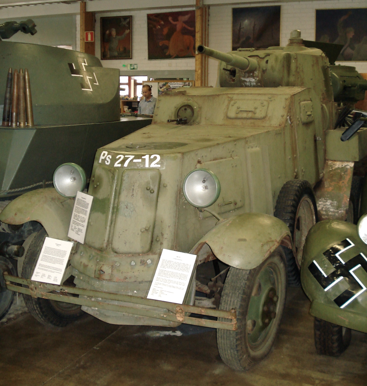 Soviet BA-10M armored car, displayed in Finnish Tank Museum (Panssarimuseo) in Parola.